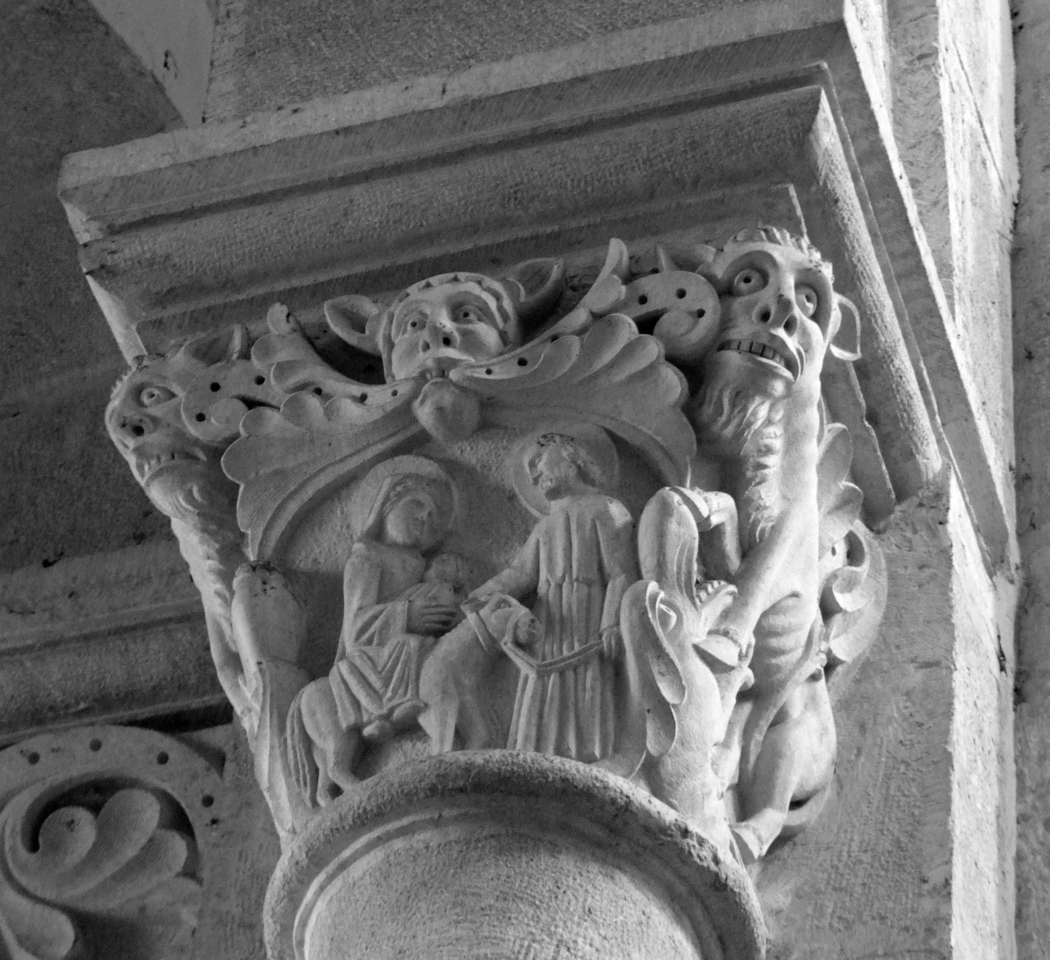 Saint-Alban churche, Lormes, Burgundy, FRANCE